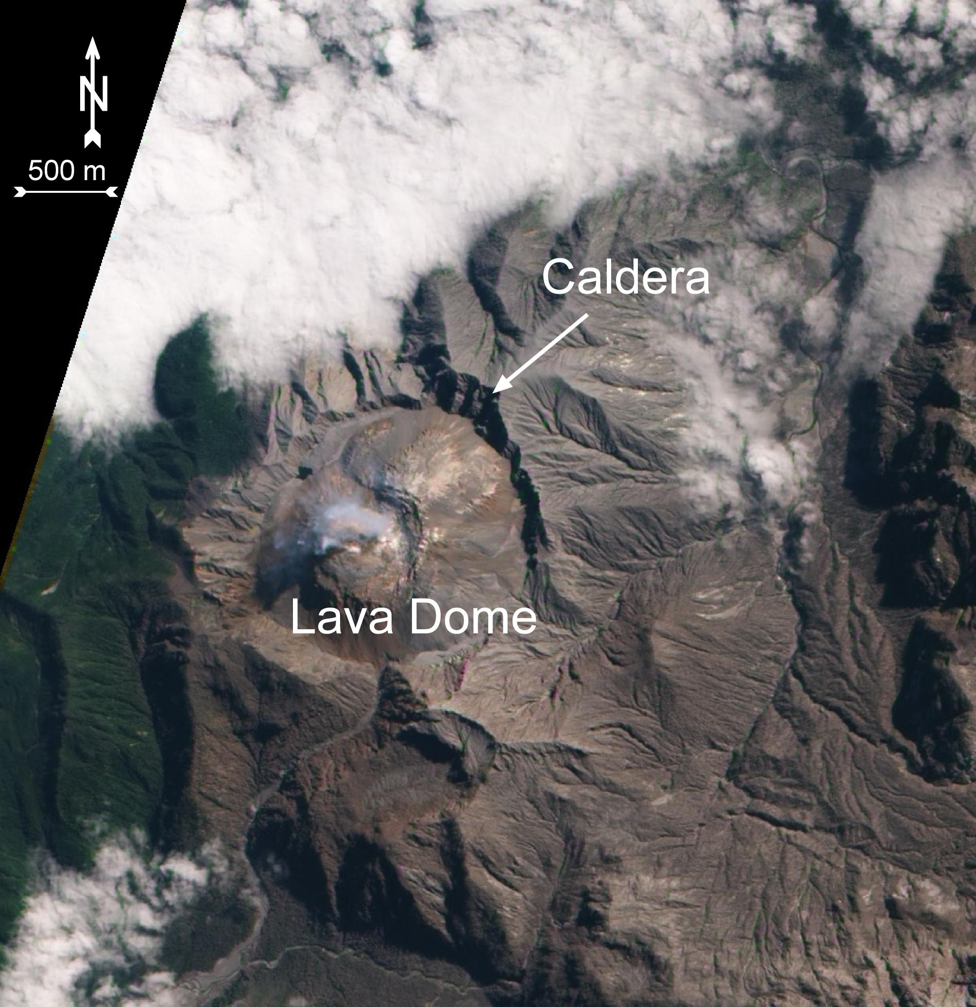 Caldera of Chaitén volcano, NASA Earth Observatory / Advanced Land Imager (ALI) aboard the Earth Observing-1 (EO-1) satellite natural color image